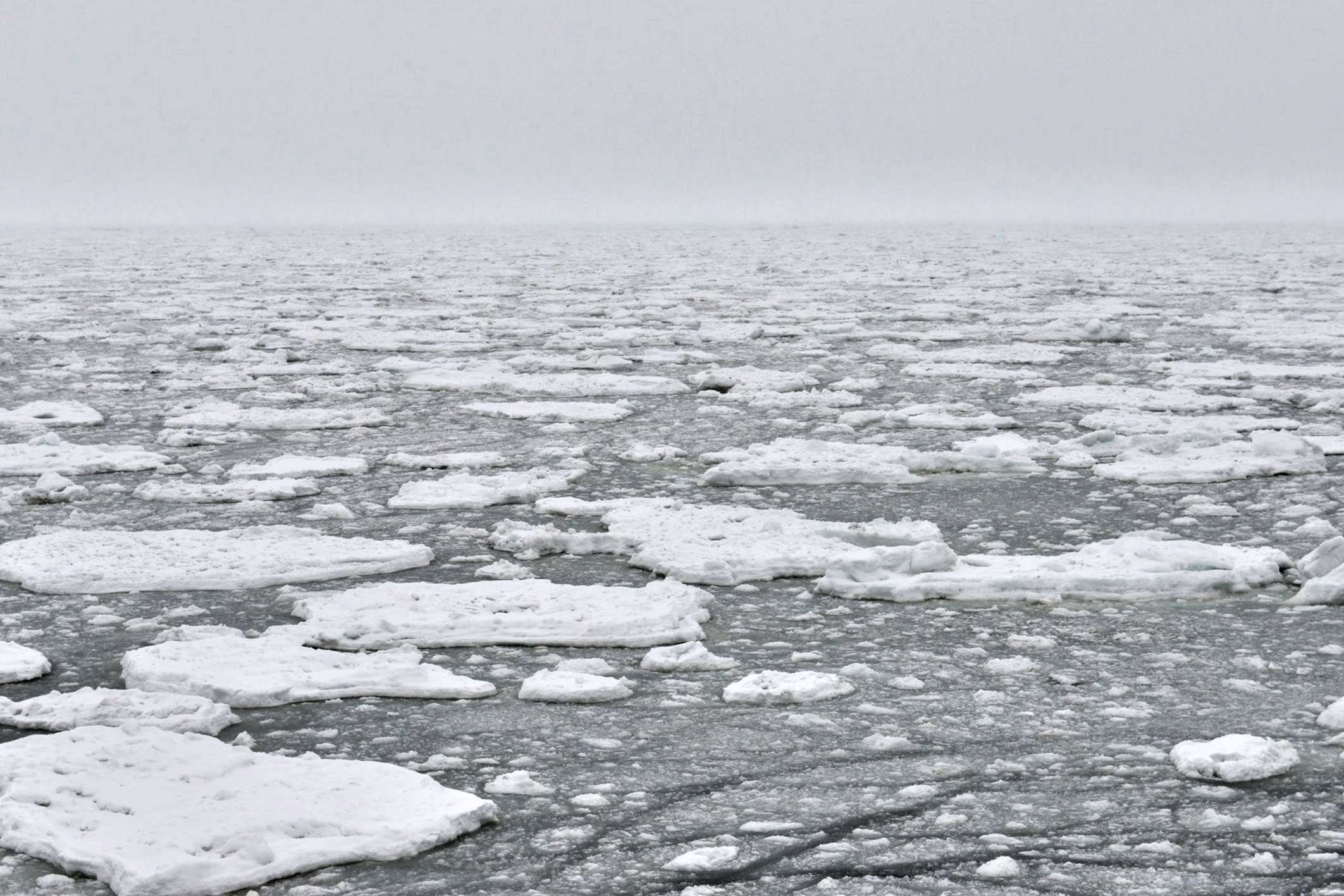 Arctic Ocean at 85°41‘N, 135°39‘E (polar ice limit) – view from bord of M/S Hanseatic